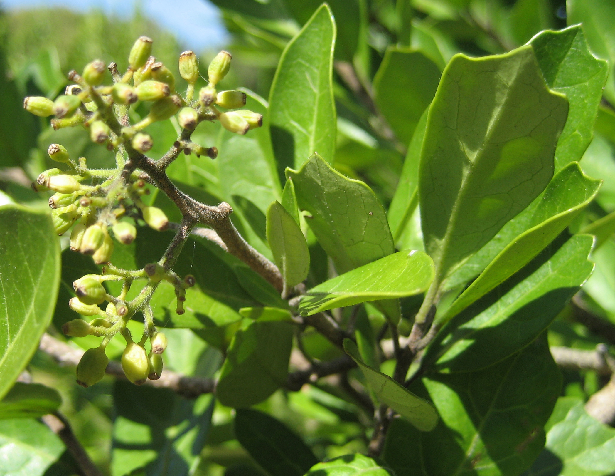 Pennantia corymbosa, (Kaikōmako), Pennantiaceae (Apiales). Endemic to New Zealand.